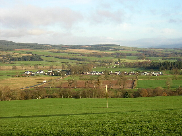 Parkgate From Dalruscan